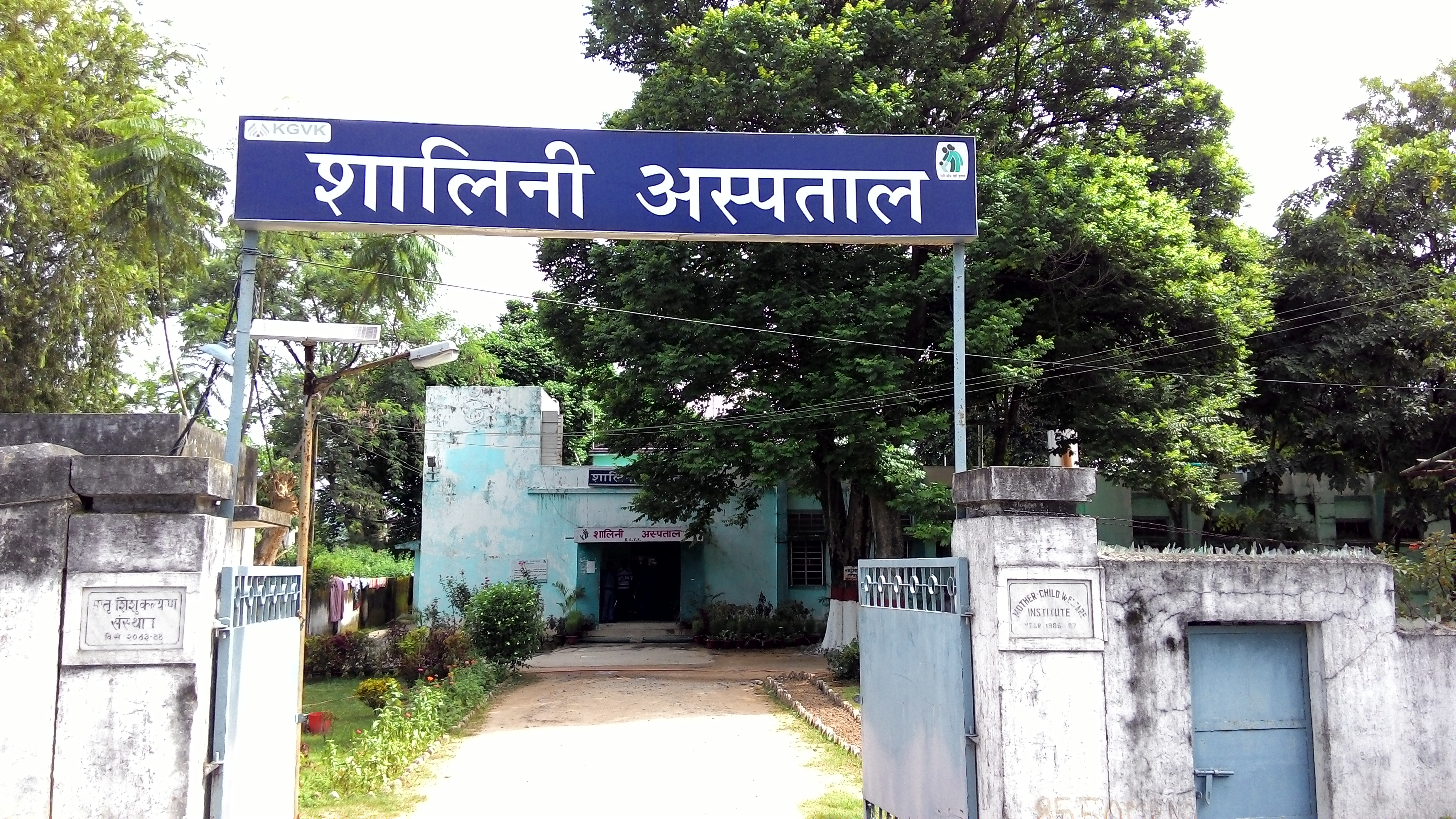 Shalini Hospital, Hutup, Jharkhand, India